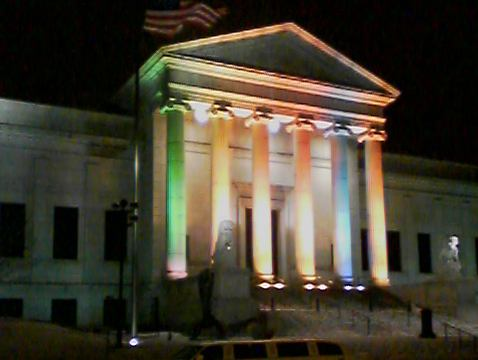 Minneapolis Institute of Arts, Minneapolis, Minnesota. Image has been cropped.